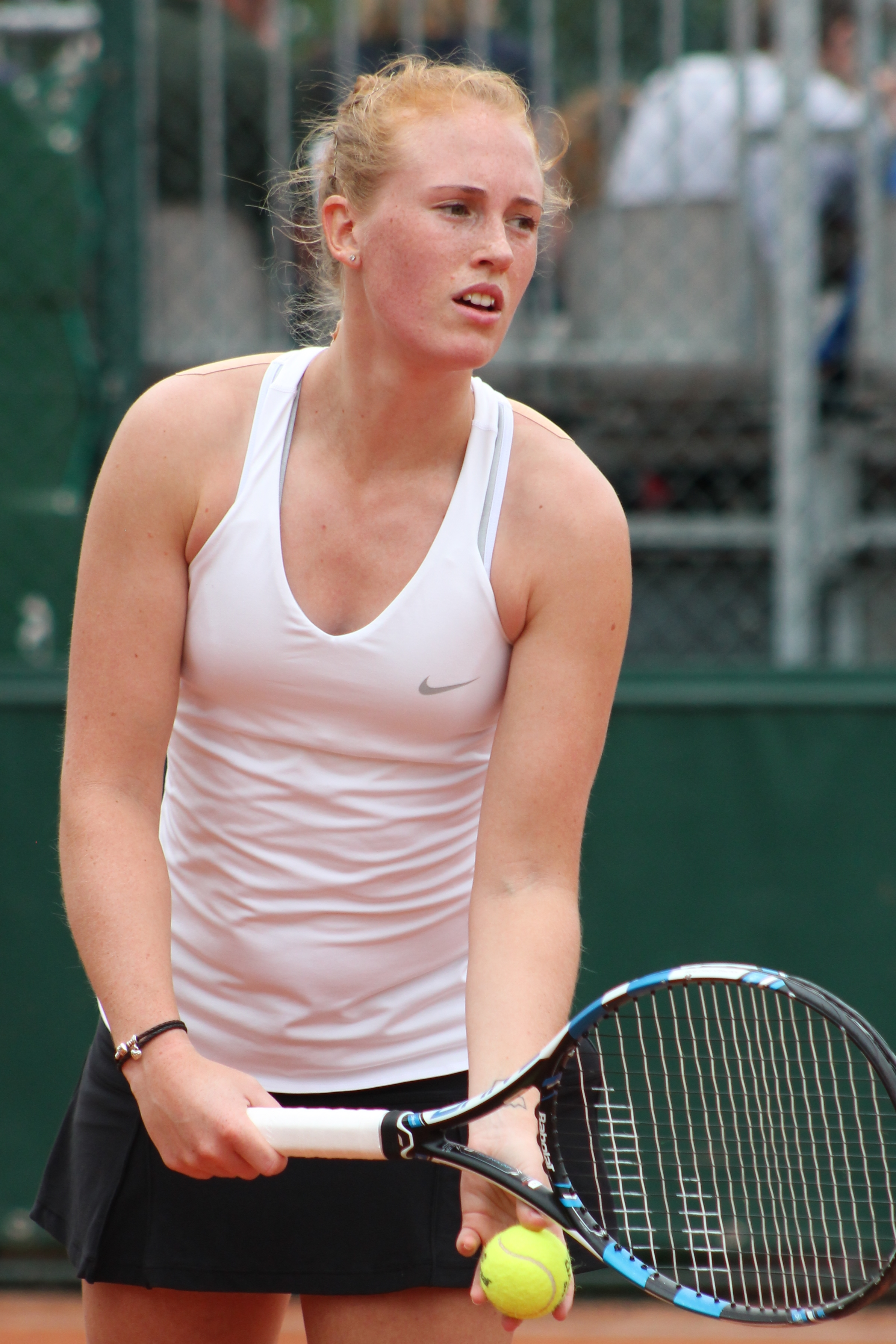 Smith A. RG16 (1)